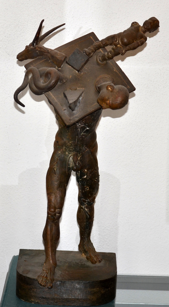 Peter Oriešek, No title II (Figure with attributes), undated, bronze, h. 55 cm